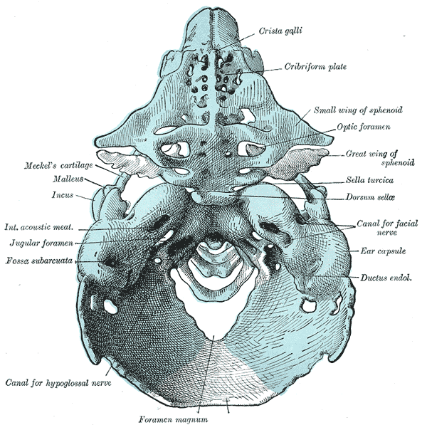 Model of the chondrocranium of a human embryo, 8 cm. long. (Hertwig.) The membrane bones are not represented.